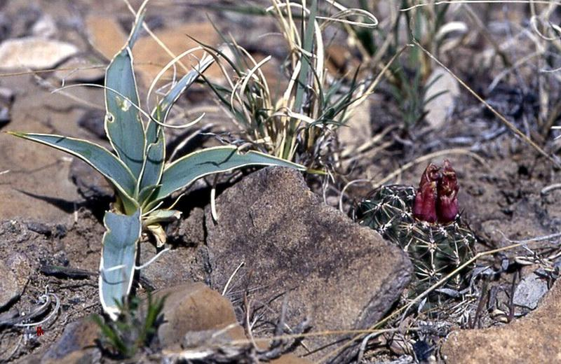 Yucca harrimanniae subsp. sterilis, Sclerocactus wetlandicus subsp. ilseae